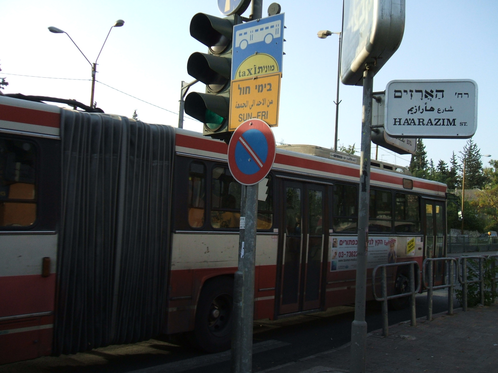 Jerusalem, Public transportation route, Jerusalem - Ha'arazim St. sign